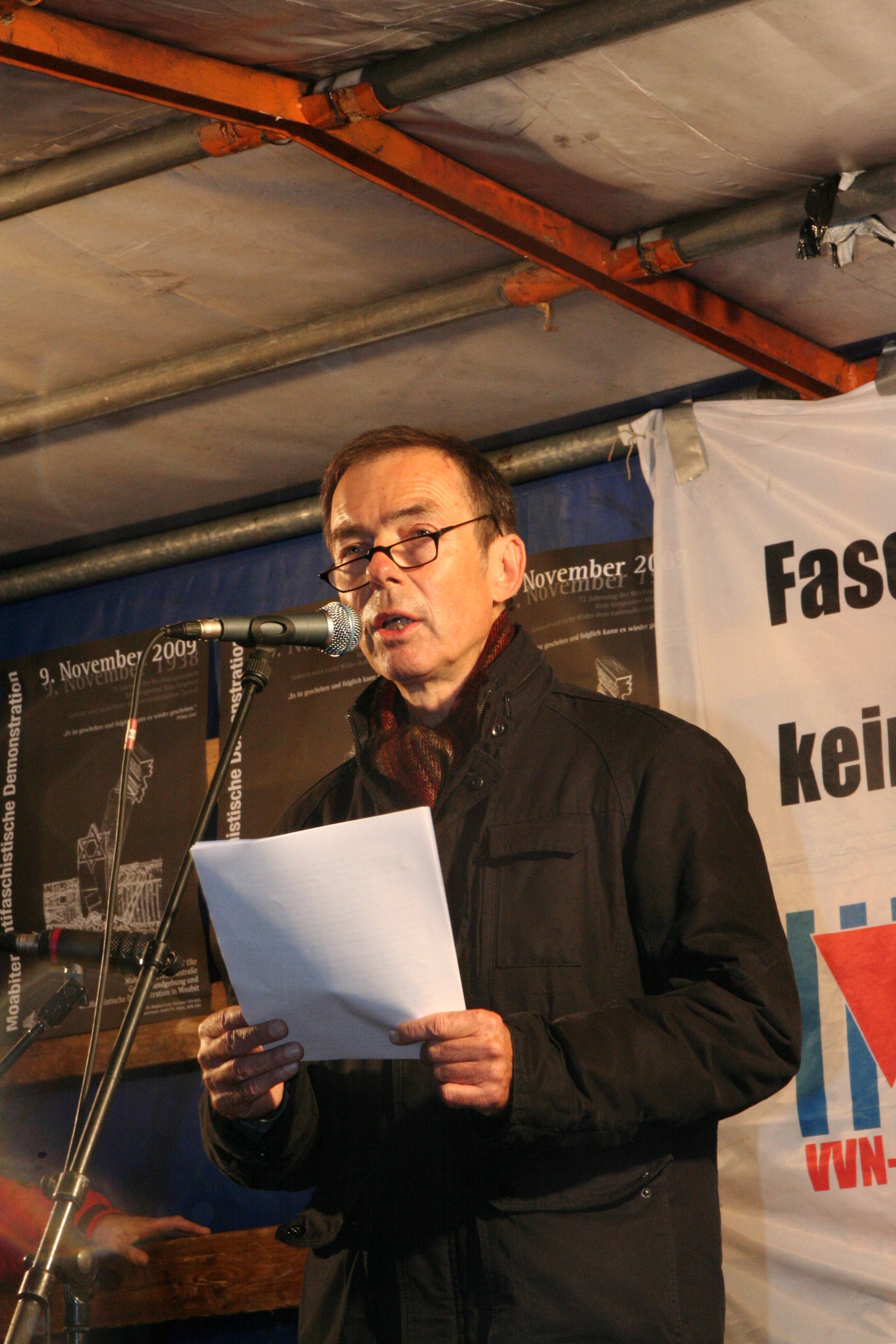 Hans Coppi junior, chairman of the Berlin VVN-BdA, at a rally for the 71st anniversary of the November pogrom in 1938 in Germany